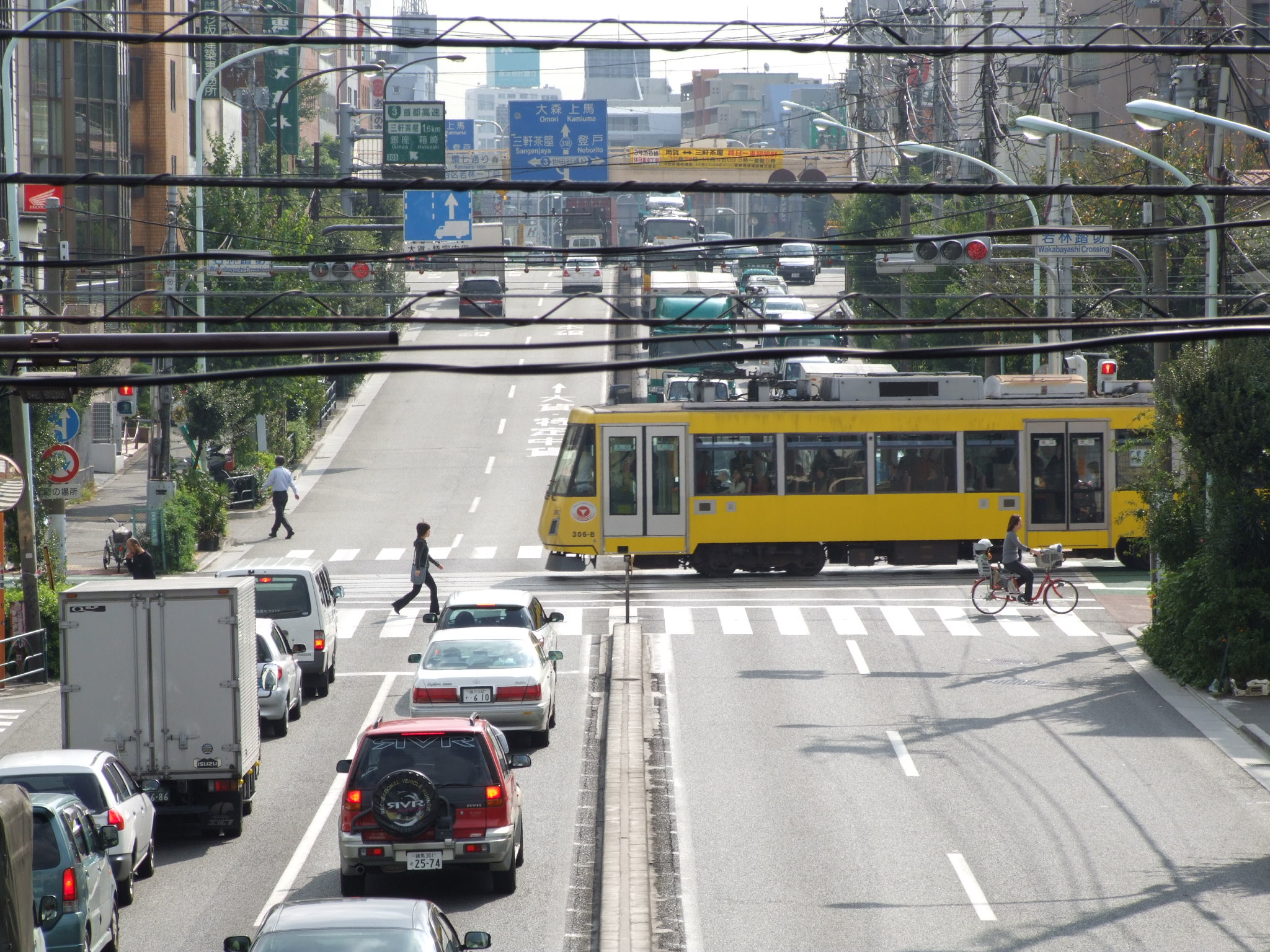 Tokyu Setagaya Line Wakabayashi Crossing in Setagaya Ward, Tokyo, Japan